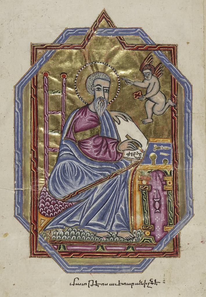 St. Matthew. Painted miniature, Gospel head-piece. From Illuminated Armenian Gospels with Eusebian canons. Shelfmark MS. Arm. d.13.